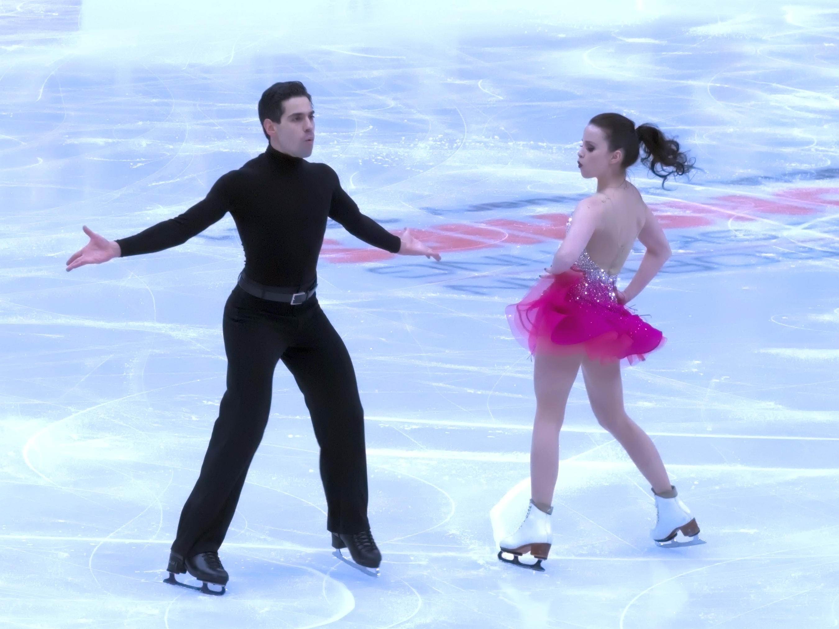 Anna Cappellini and Luca Lanotte at the 2018 European Figure Skating Championships in Moscow